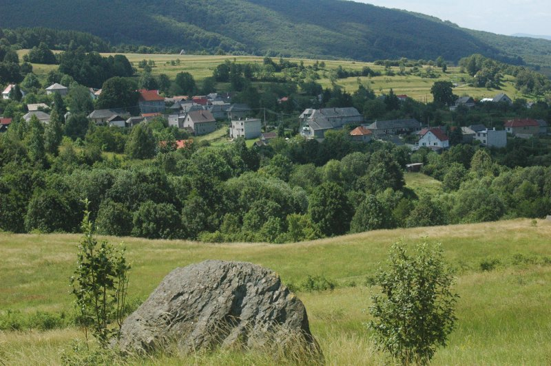 Podhradie, Prievidza district